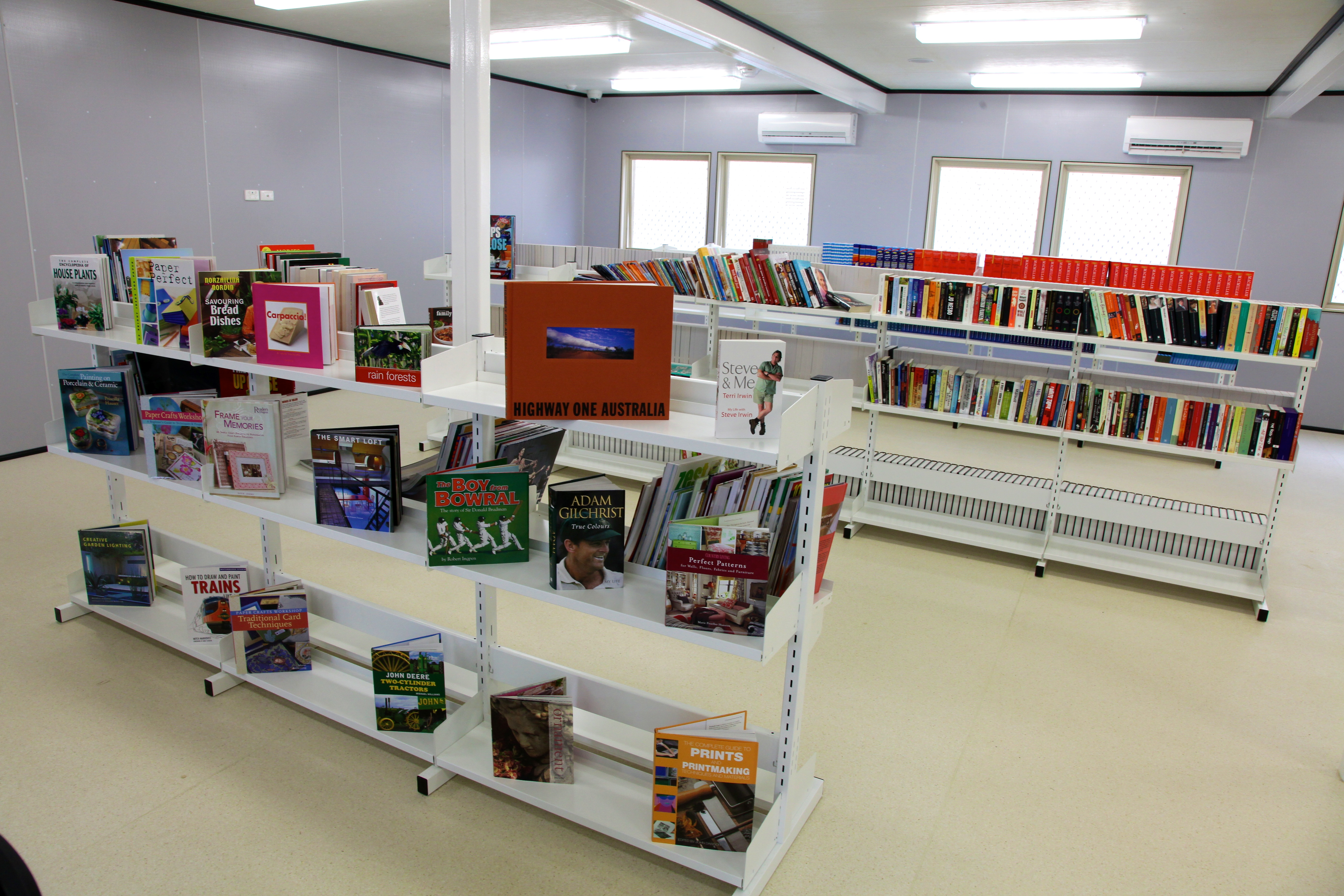 Yongah Hill Immigration Detention Centre